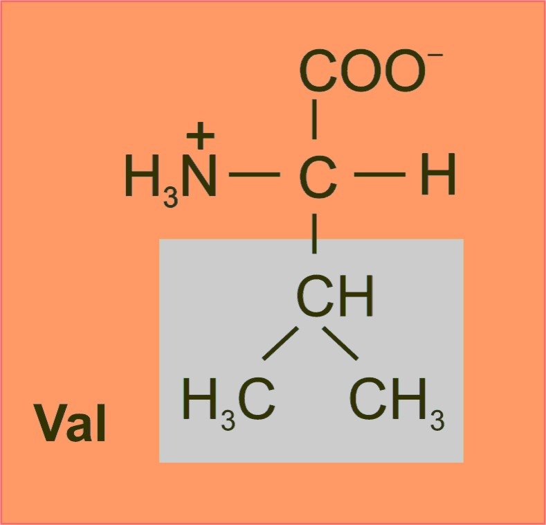 Valine amino acid formula jpg